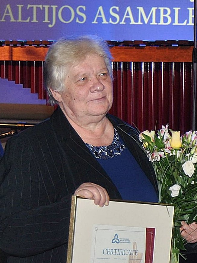 Estonian writer Ene Mihkelson on 22 October 2010.